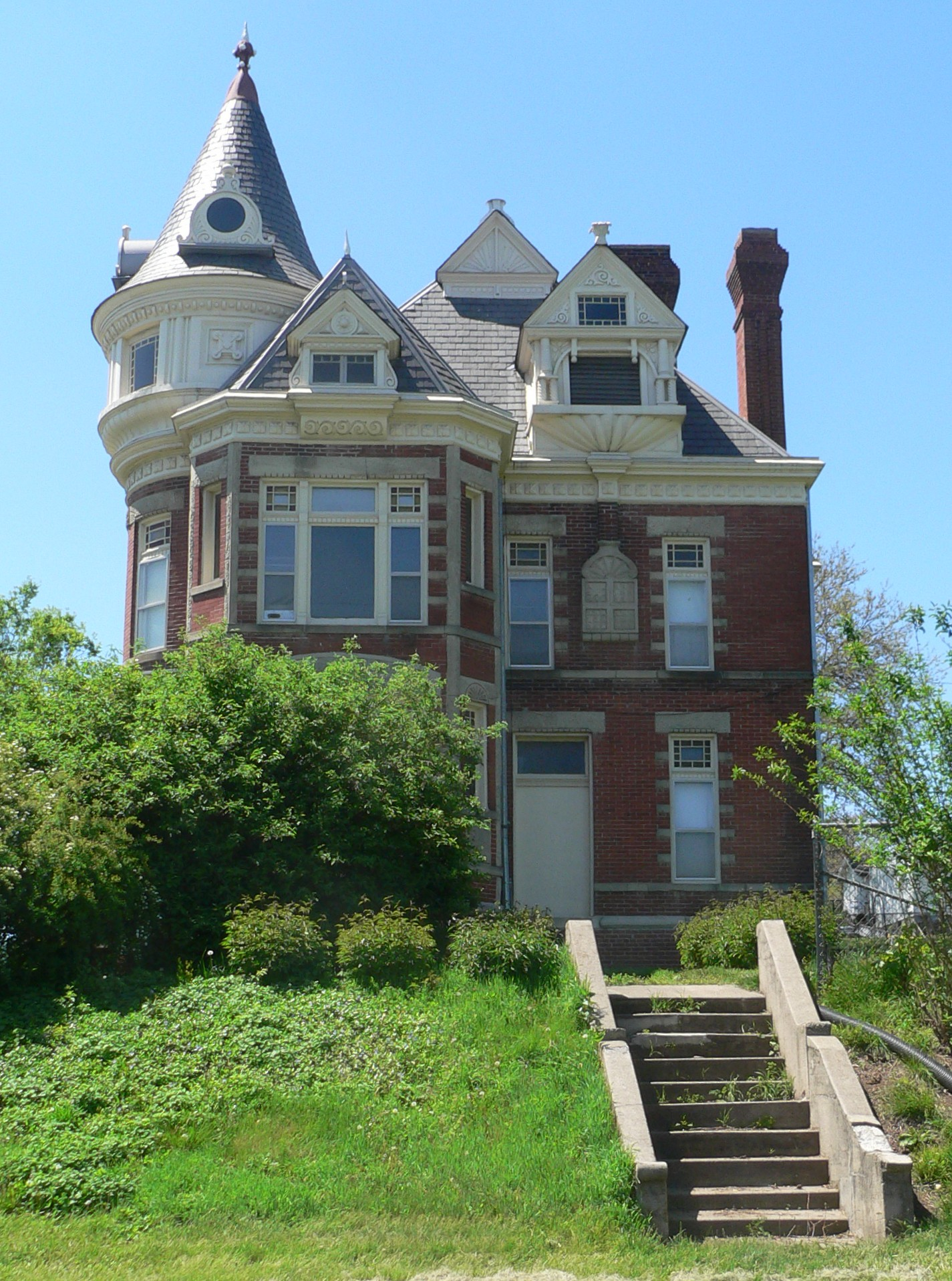 McInteer Villa, located at northwest corner of 13th and Kansas Streets in Atchison, Kansas; seen from the east, from 13th.